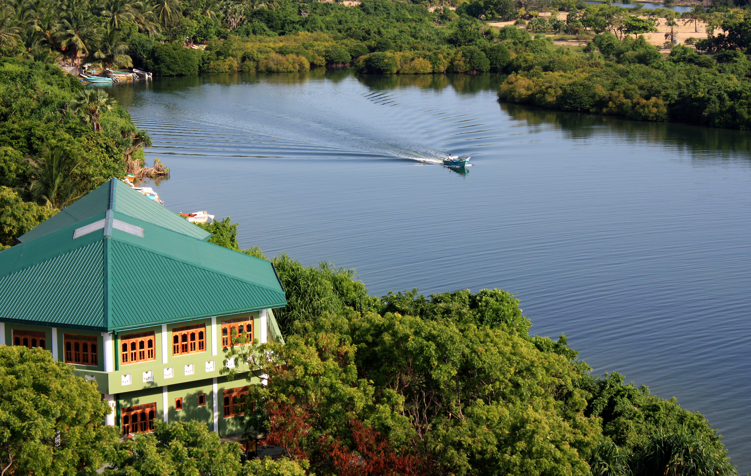 Batticaloa lagoon. Photo taken from the Batticaloa lighthouse.